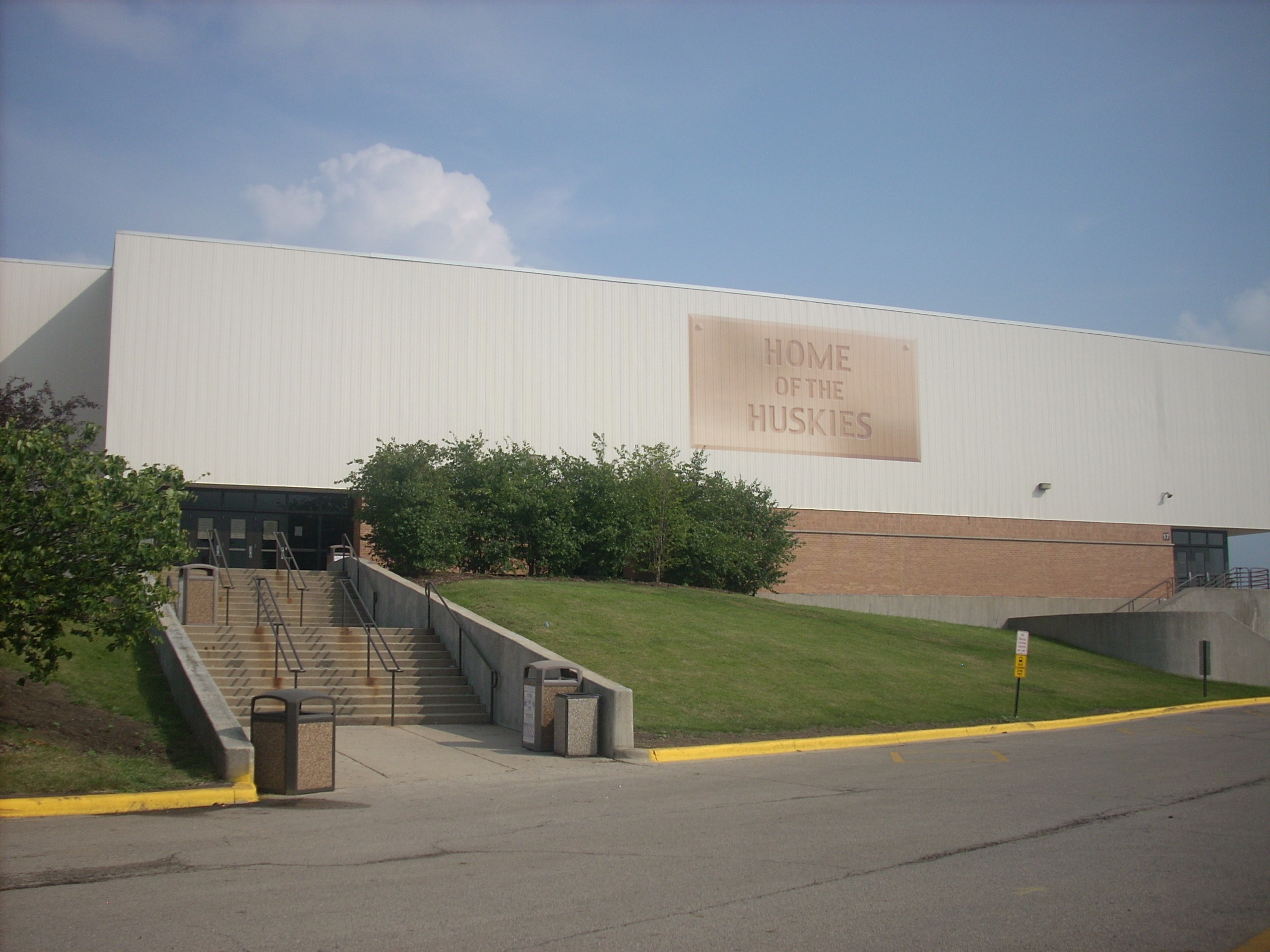 Picture I took of North's Athletic wing.